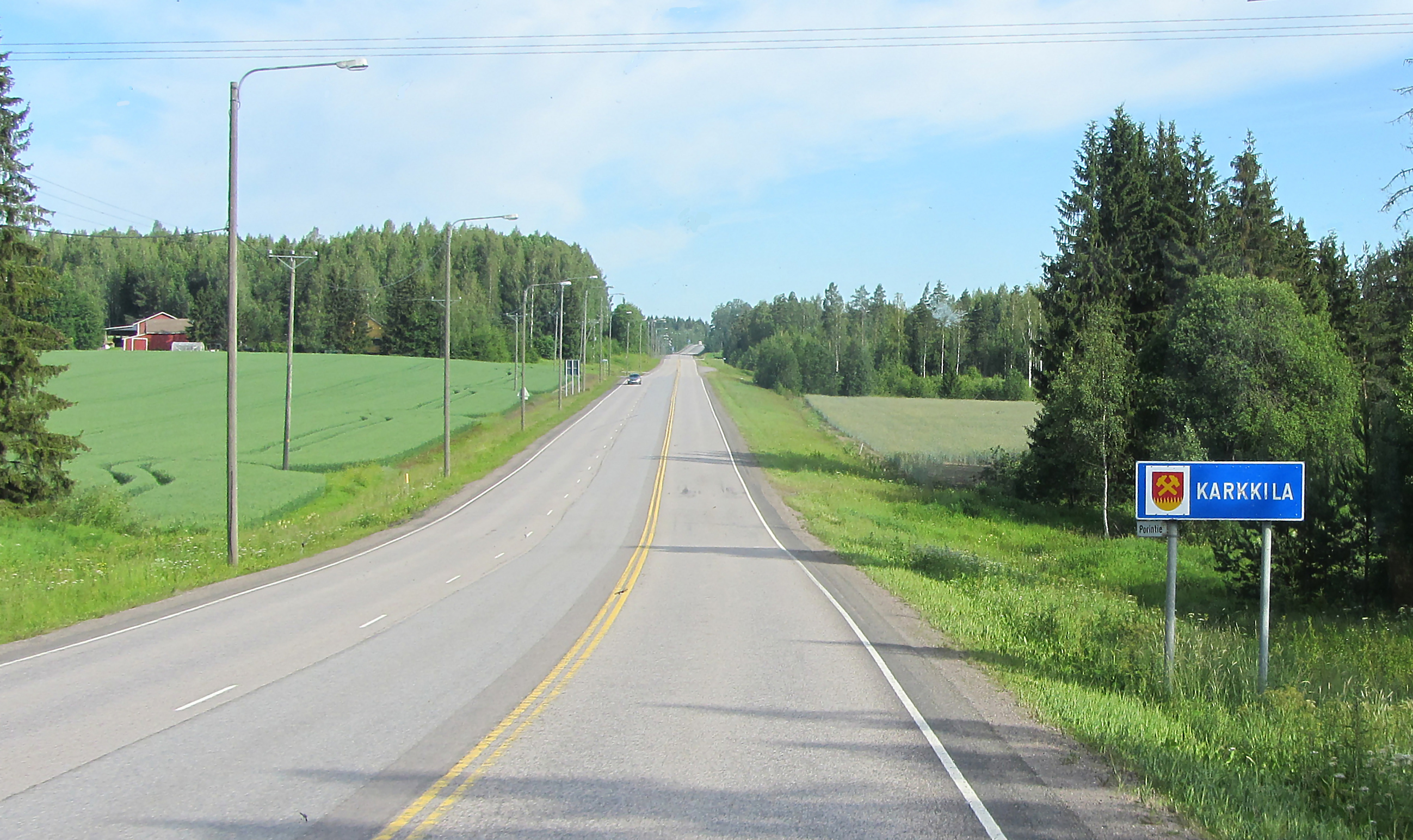 The municipal border sign for Karkkila, Finland, on the main road 2.